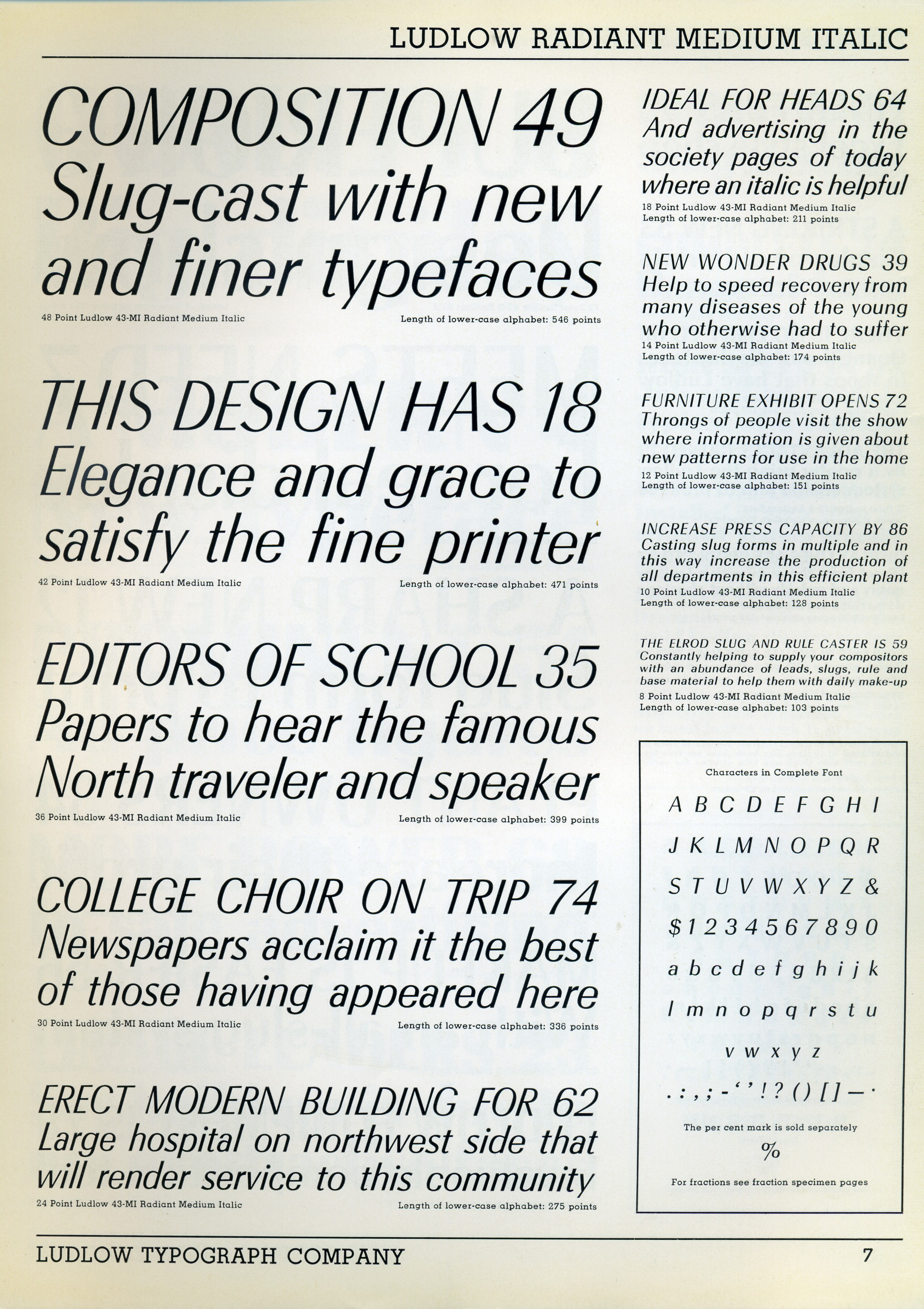 From